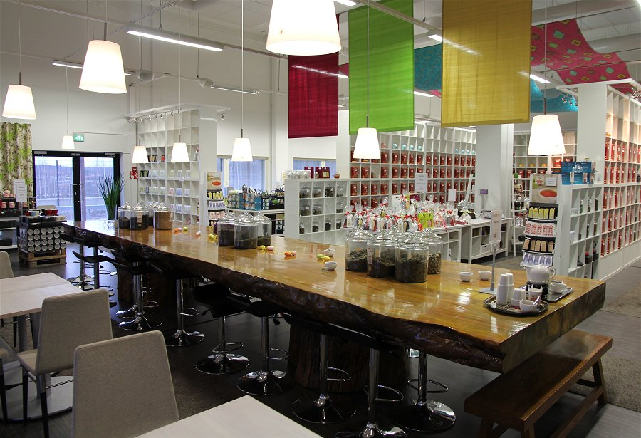 Inside view of Forsman Tea (Aaro Forsman Oy) located in Viinikkala, Vantaa, Finland. Company is the largest tea house in Finland (likely also largest in the Nordic countries) by the sales volume. Customers can taste, enjoy and select various teas - there are more than 500 different types are available.